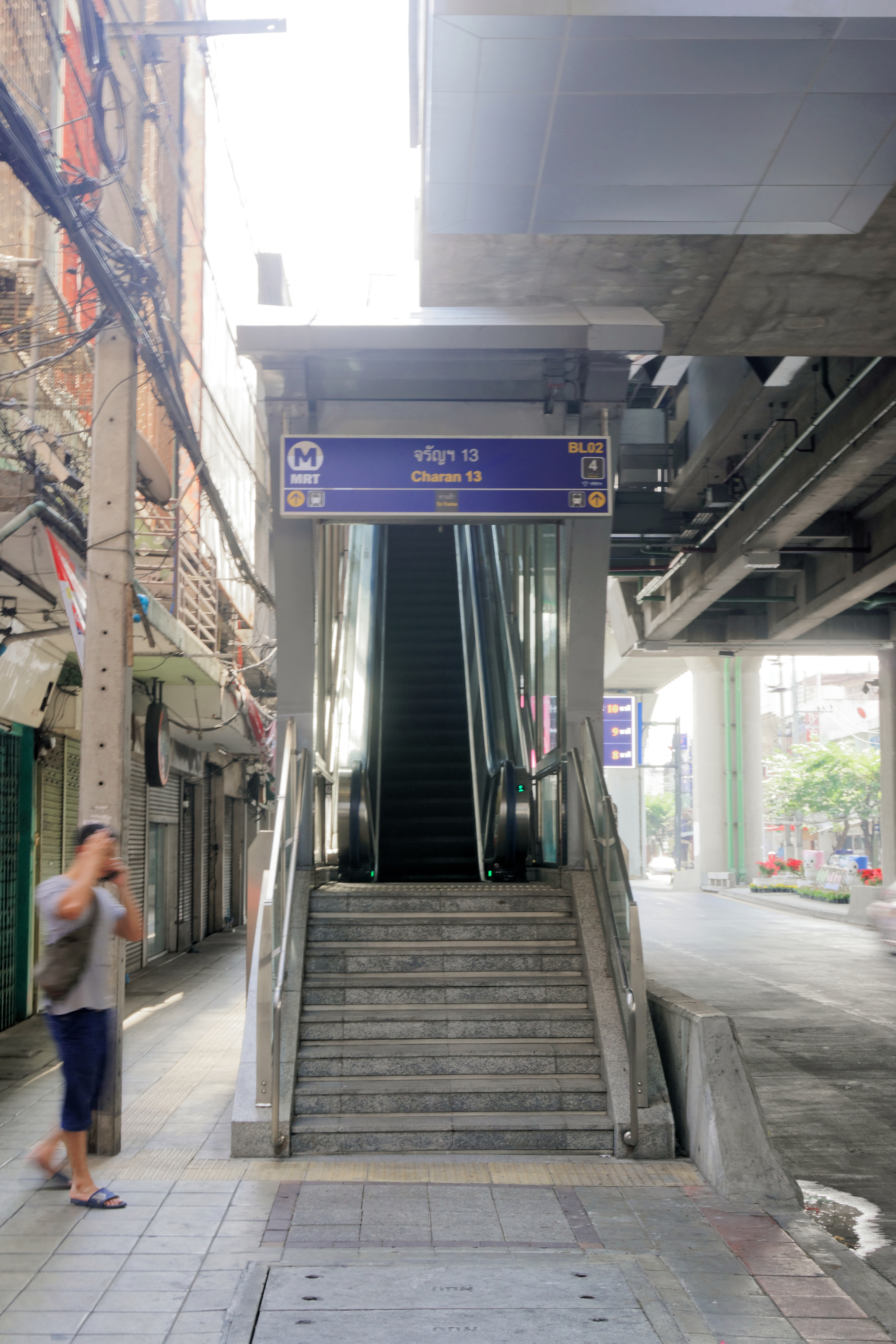 MRT Charan 13 – Exit 4